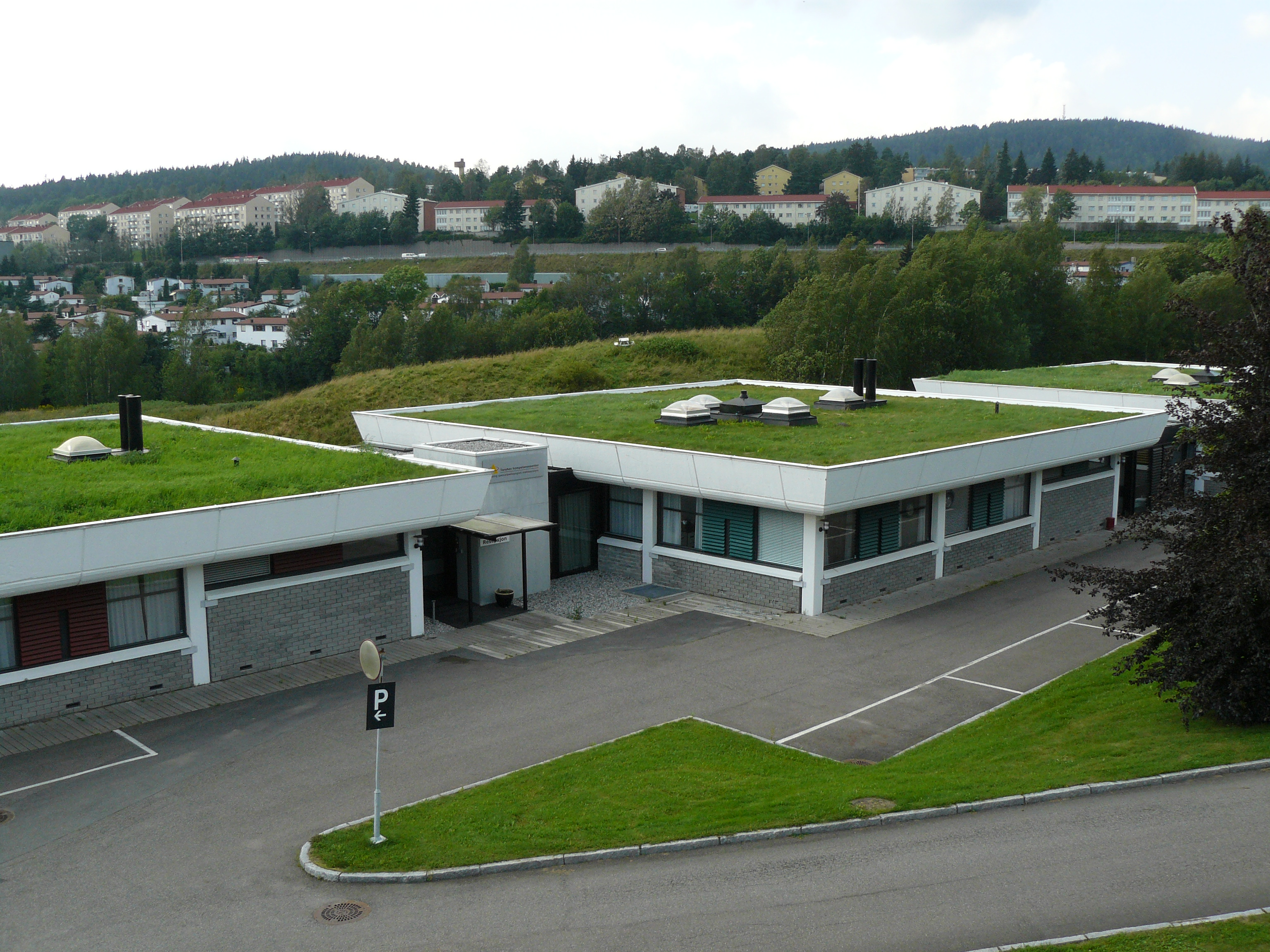 Torshov kompetansesenter in Oslo, a centre for special education, specialized in social and emotional challenges